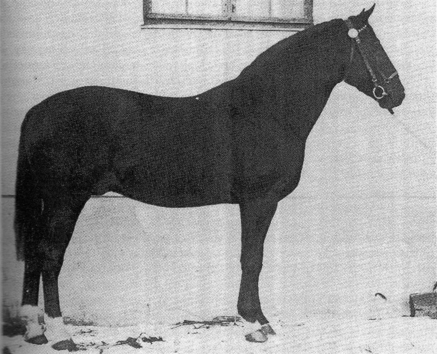 Hannoverian stallion Flüchtling (Finnish studbook number 1)